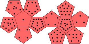 nontransitive dodecahedron C IV